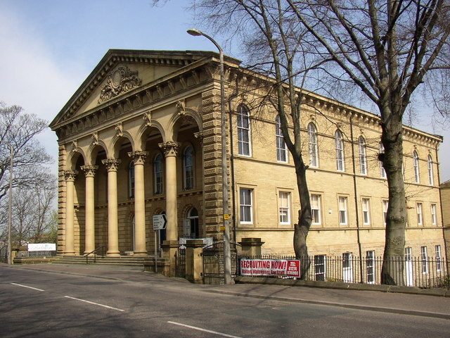 Former Providence Congregational Chapel, Bradford Road, Cleckheaton, Kirklees, West Yorkshire, England, seen from the south. It was built in 1857–9 as Providence Congregational Chapel and later became an United Reformed church. The portico has Corinthian columns and vermiculated rusticated corners to the end walls. As of 2016 it houses the Akash Restaurant